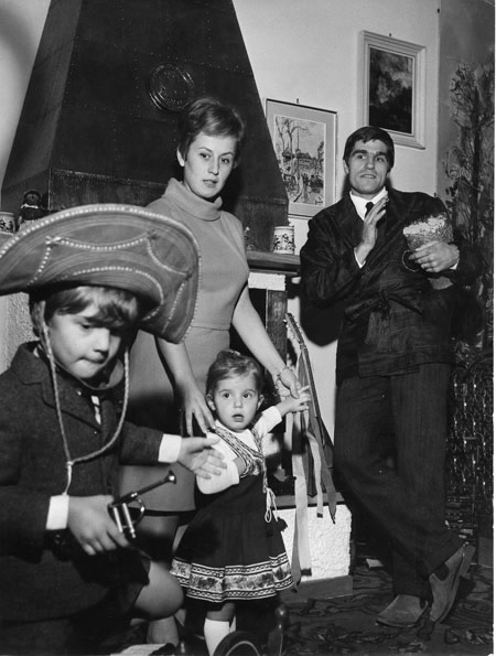 Nino Benvenuti with wife and children Stefano and Macrì